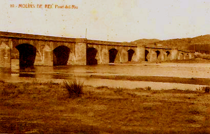 Old postcard showing the bridge of Charles III in Molins de Rei. Sent in 1928.